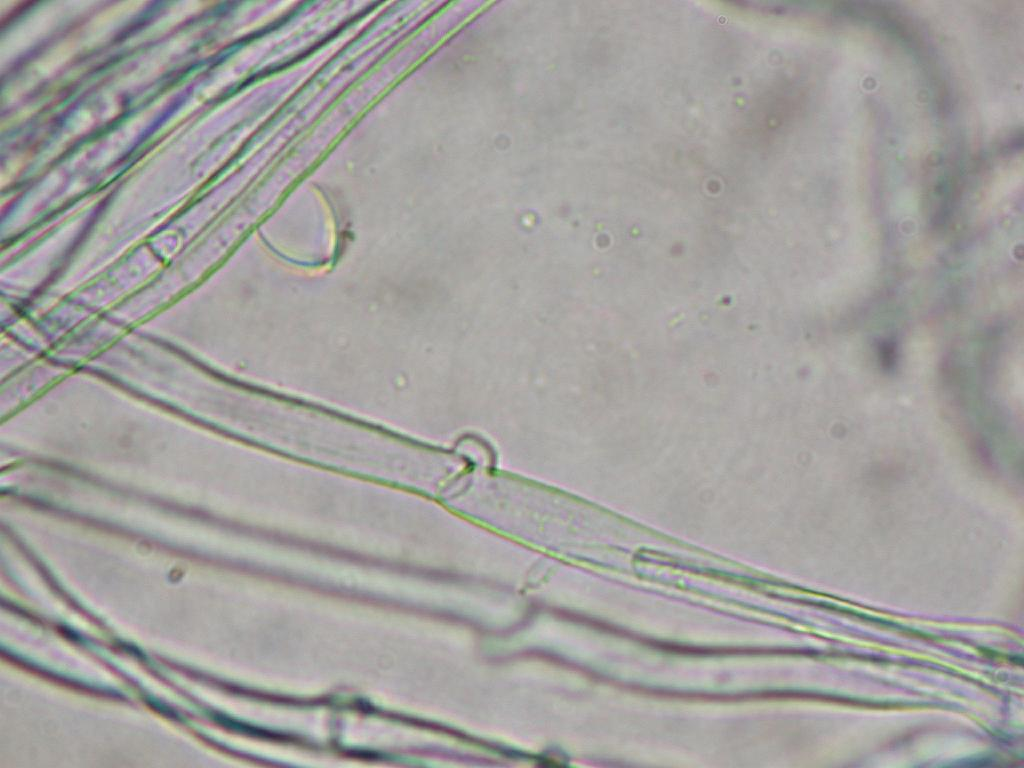 Hypha of Lentinula edodes(シイタケ） Date;2008,05,15;Tanabe city, Wakayama prefecture, Japan Author;Keisotyo